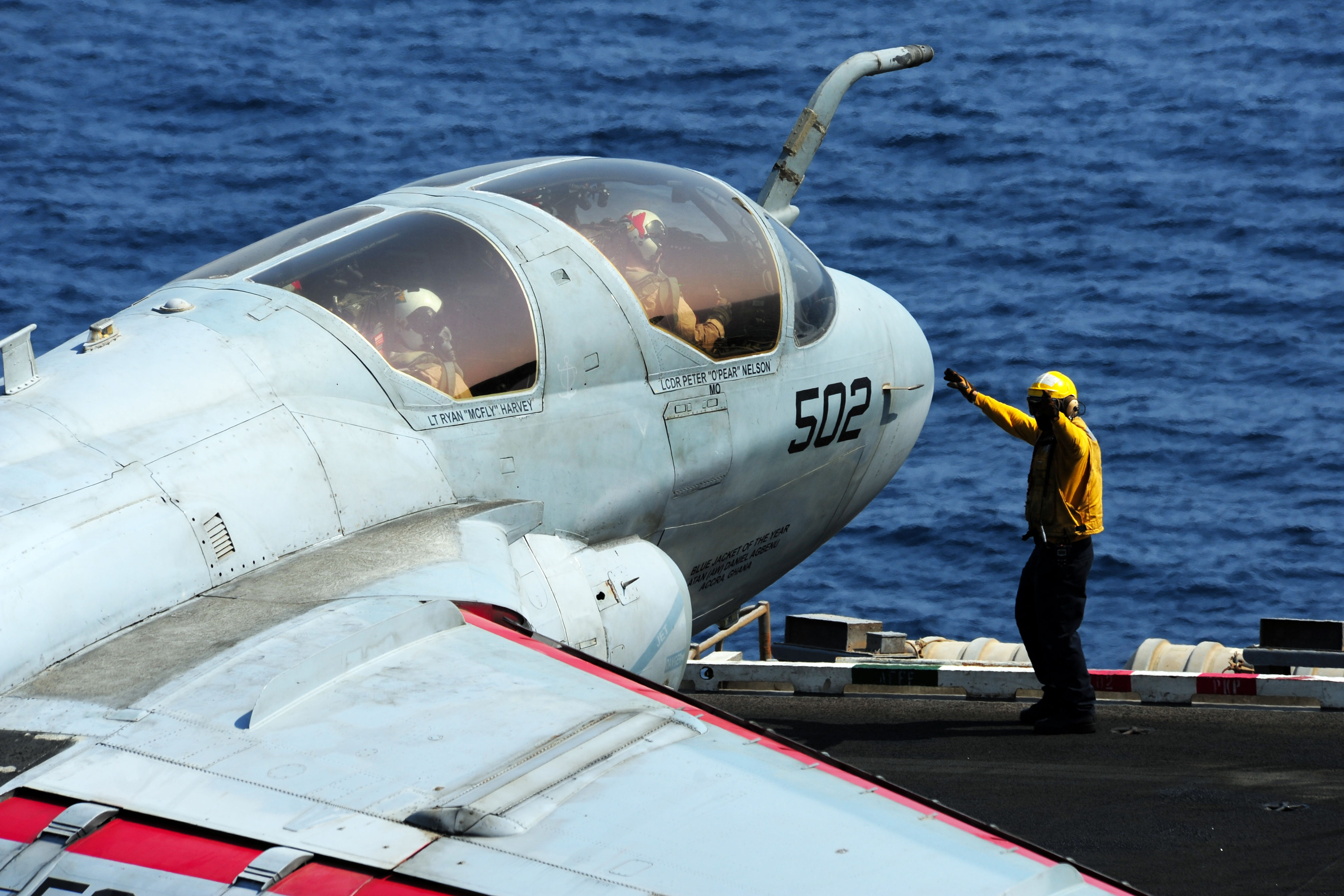 U.S. Sailors direct an EA-6B Prowler aircraft assigned to Electronic Attack Squadron (VAQ) 134 on the flight deck of the aircraft carrier USS George H.W. Bush (CVN 77) Aug. 26, 2014, in the Persian Gulf as the ship supports operations in Iraq. President Barack Obama authorized humanitarian aid deliveries to Iraq as well as targeted airstrikes to protect U.S. personnel from extremists known as the Islamic State in Iraq and the Levant. U.S. Central Command directed the operations.